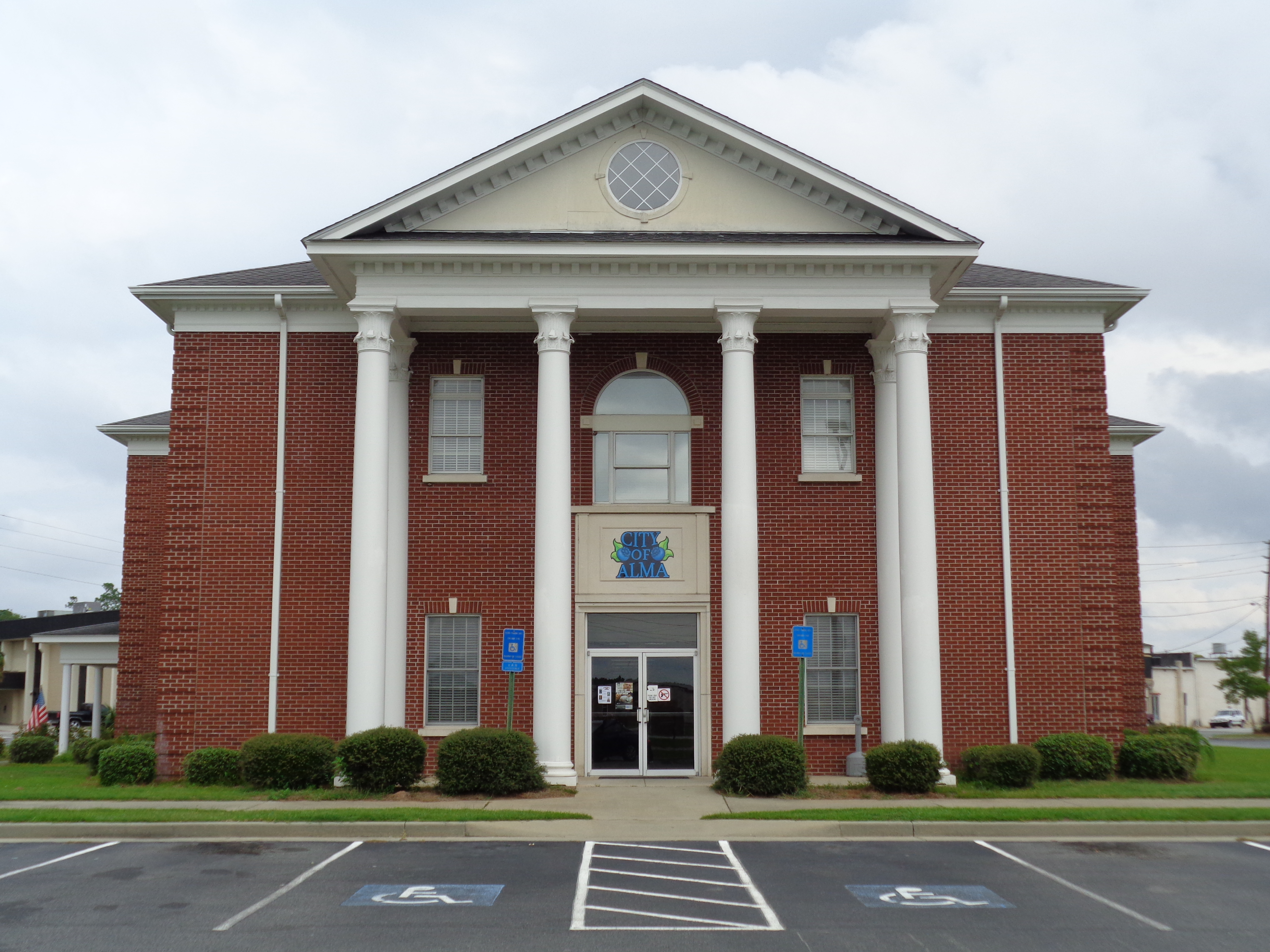 Bacon County Courthouse, Alma City services face, Alma, Bacon County, Georgia